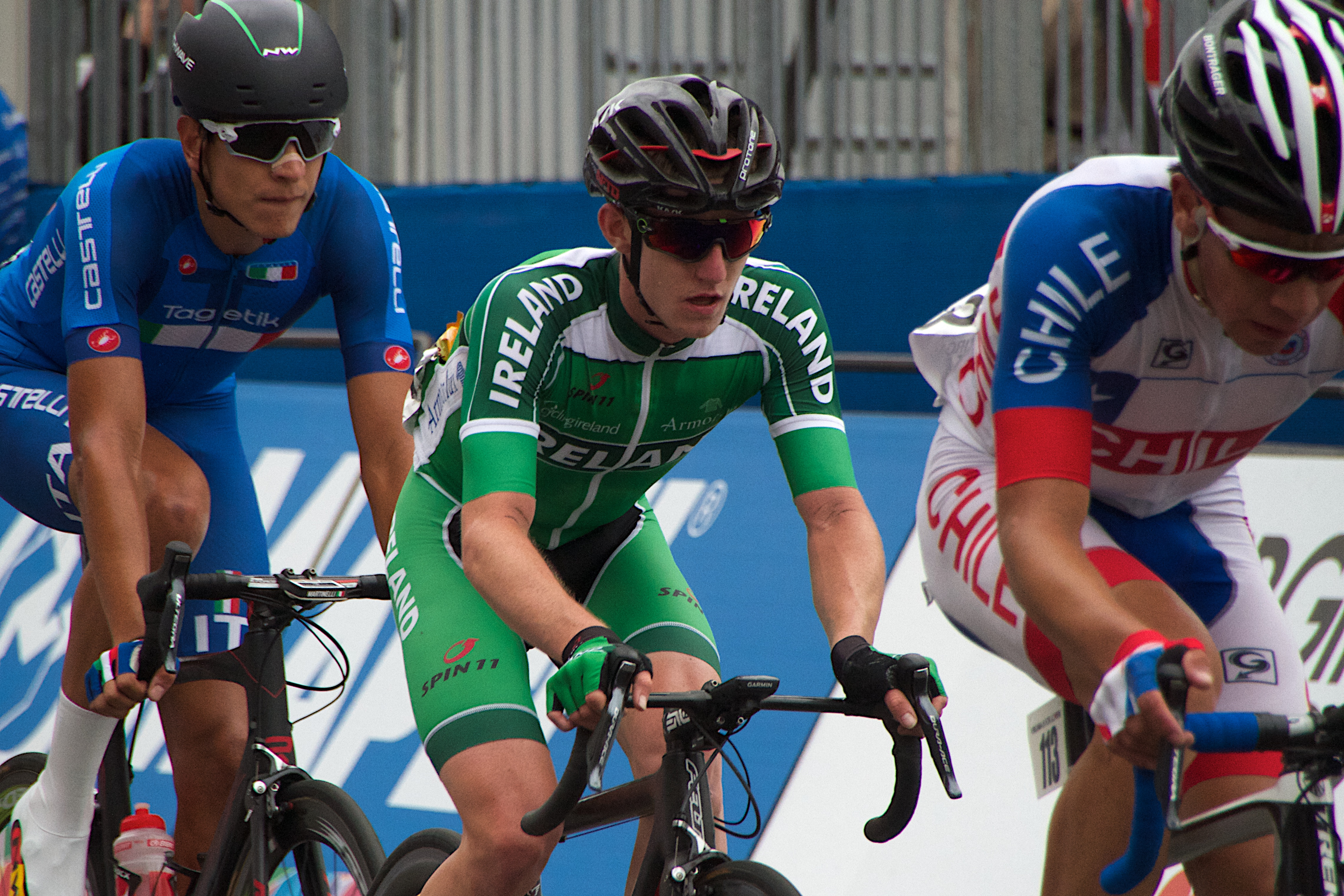 UCI Road Championship Races, Richmond VA 2015 UCI Road World Championships, in Richmond, United States, men's under-23 road race